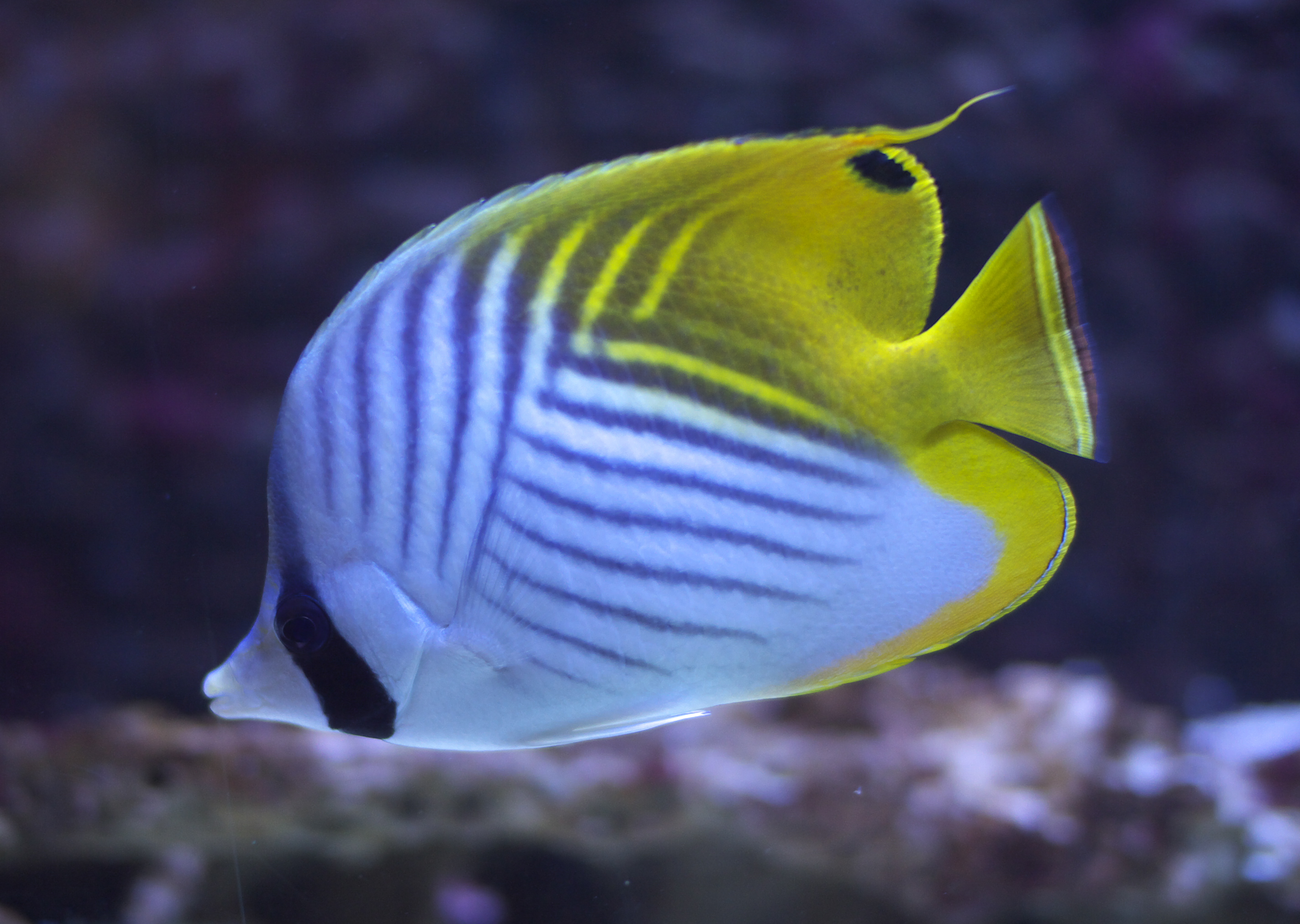 Chaetodon auriga setifer at taipei sea world